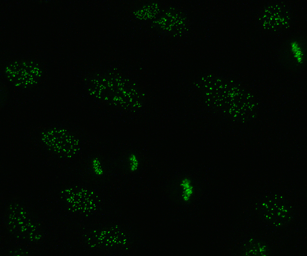 Immunofluorescence pattern of centromere antibodies. Produced using serum from a patient on HEp-20-10 cells with a FITC conjugate